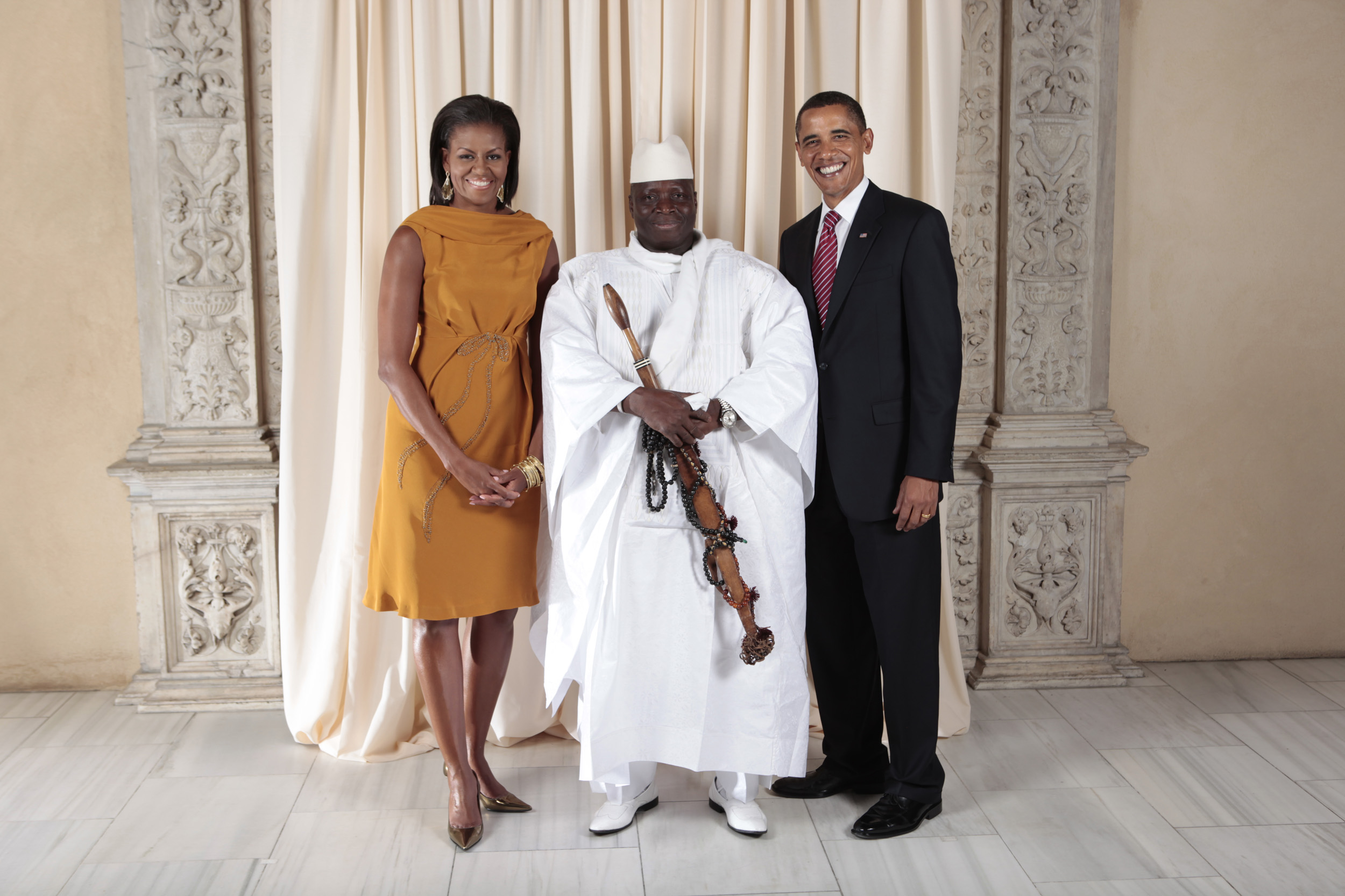 President Barack Obama and First Lady Michelle Obama pose for a photo during a reception at the Metropolitan Museum in New York with H.E. Alhaji Dr. Yahya A.J.J. Jammeh, President of the Republic of The Gambia.